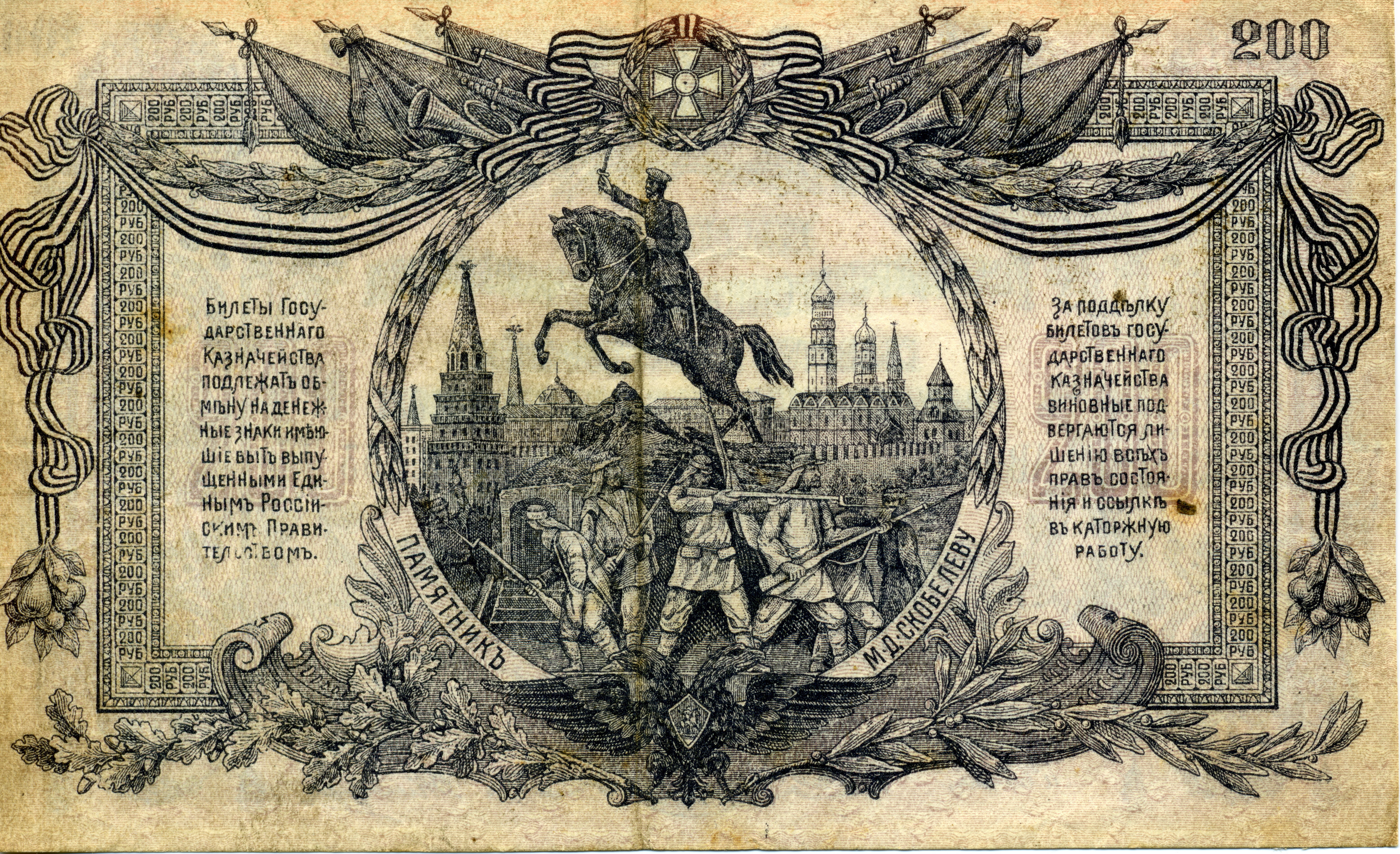 Russian Don banknote 200 rubles. 1919 year.